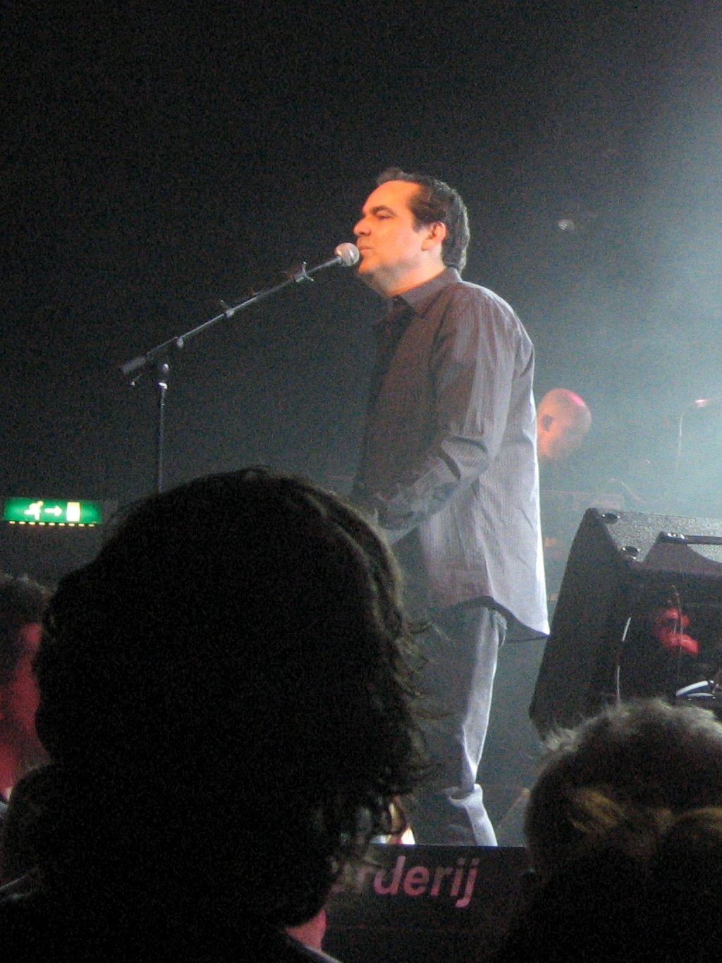 Neal Morse performing in "de boerderij", Zoetermeer (NL). Cropped version from the original.